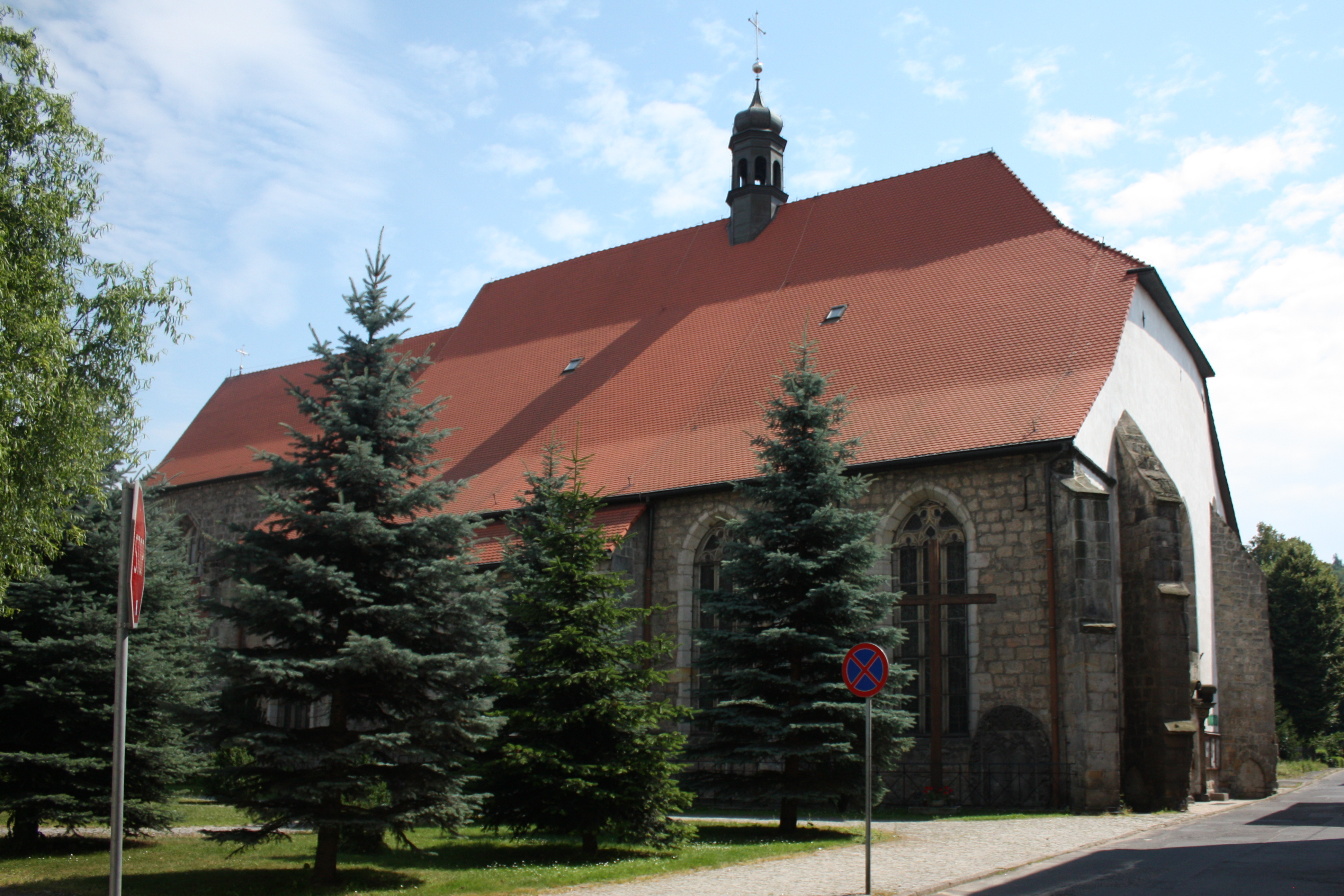 This photo of Lower Silesian Voivodeship was taken during Wikiexpedition 2013 set up by Wikimedia Polska Association. You can see all photographs in category Wikiekspedycja 2013. English | Polski | +/−